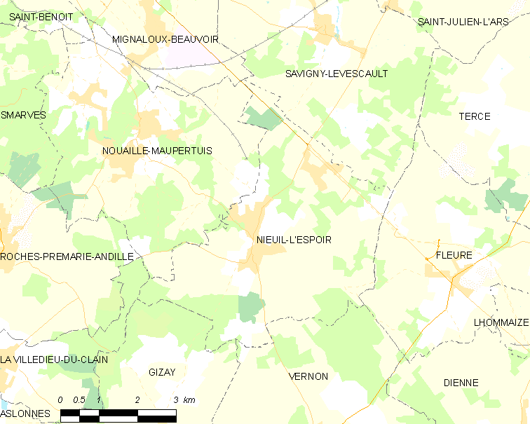 Map of French municipality Nieuil-l'Espoir